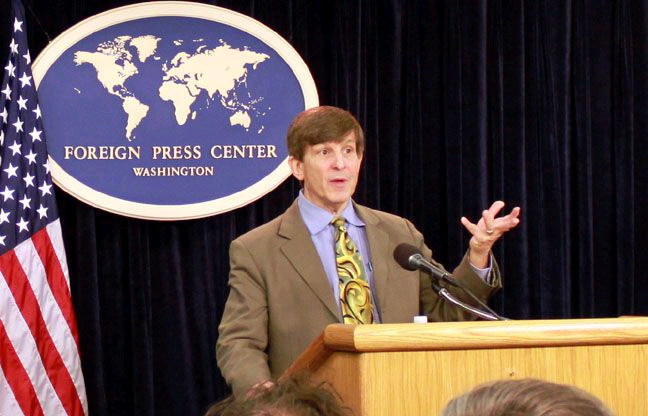 American historian Allan Lichtman, delivering a briefing on "Analysis of Obama's First State of the Union Address"